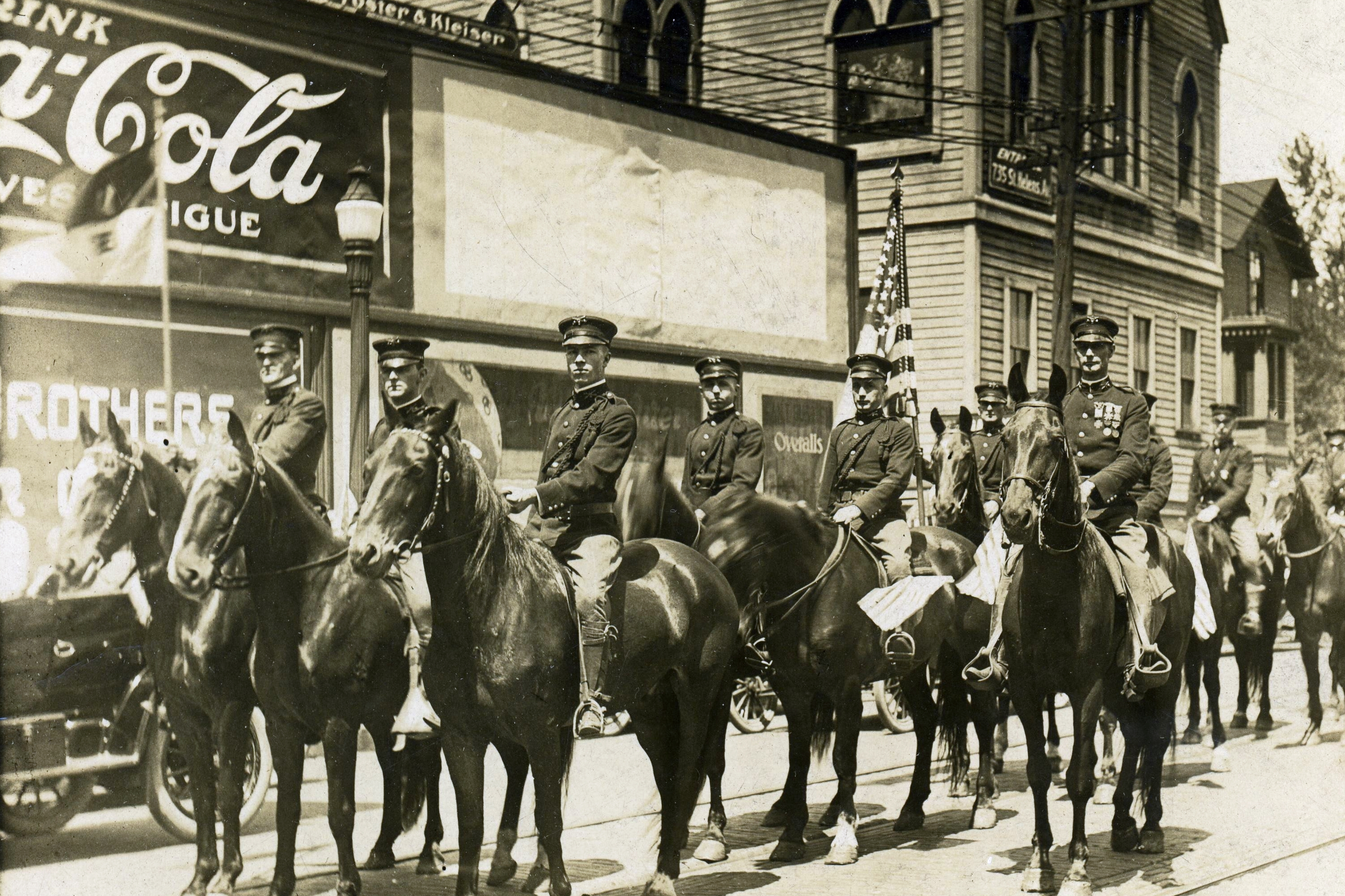 Troop B of the 1st Cavalry Regiment of the Washington National Guard pictured at a parade in Tacoma, Washington, United States in 1907. An advertising sign for Coca-Cola is visible in the background. Other information Per disclaimer on website: "Unless specifically stated, images from our photo collections are copyright-free, as are the rest of our images and audio."